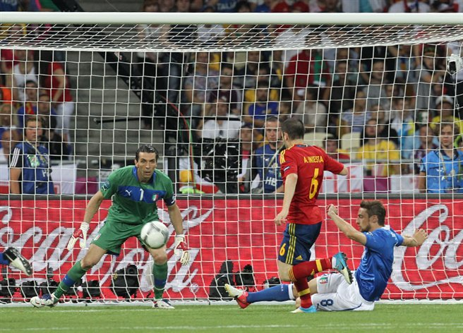 Andrés Iniesta shot at Euro 2012 final Spain-Italy